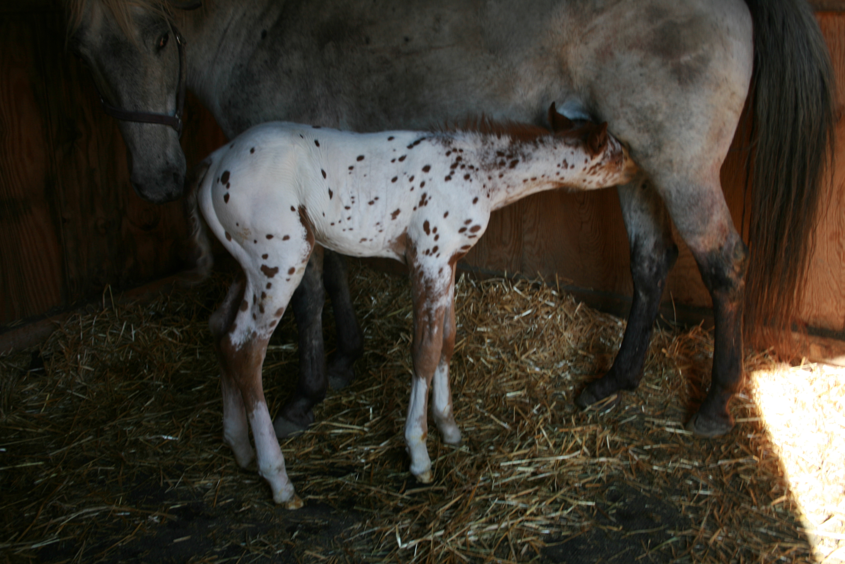 Found!